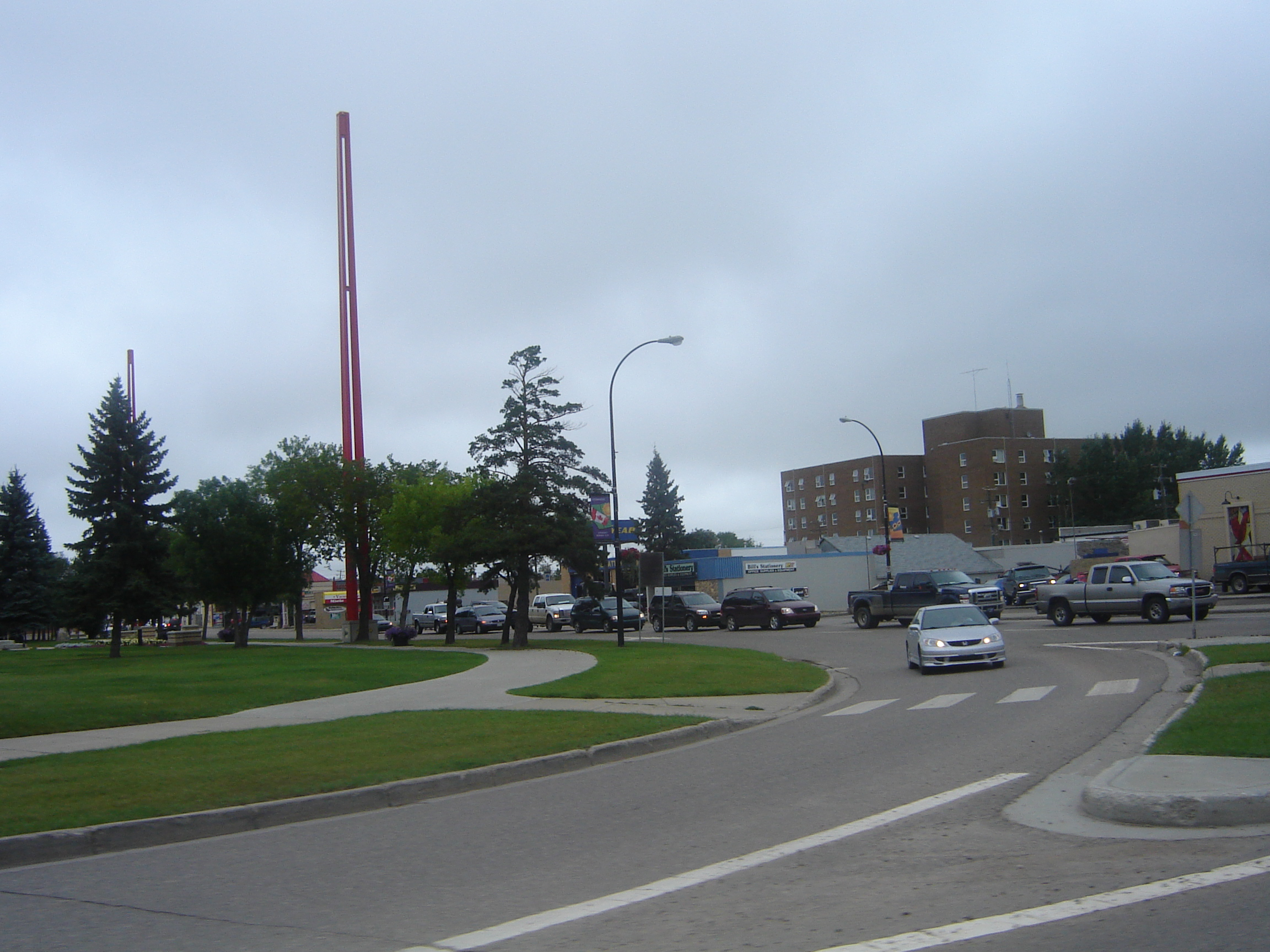 One of the border markers at Lloydminster, Canada's border city